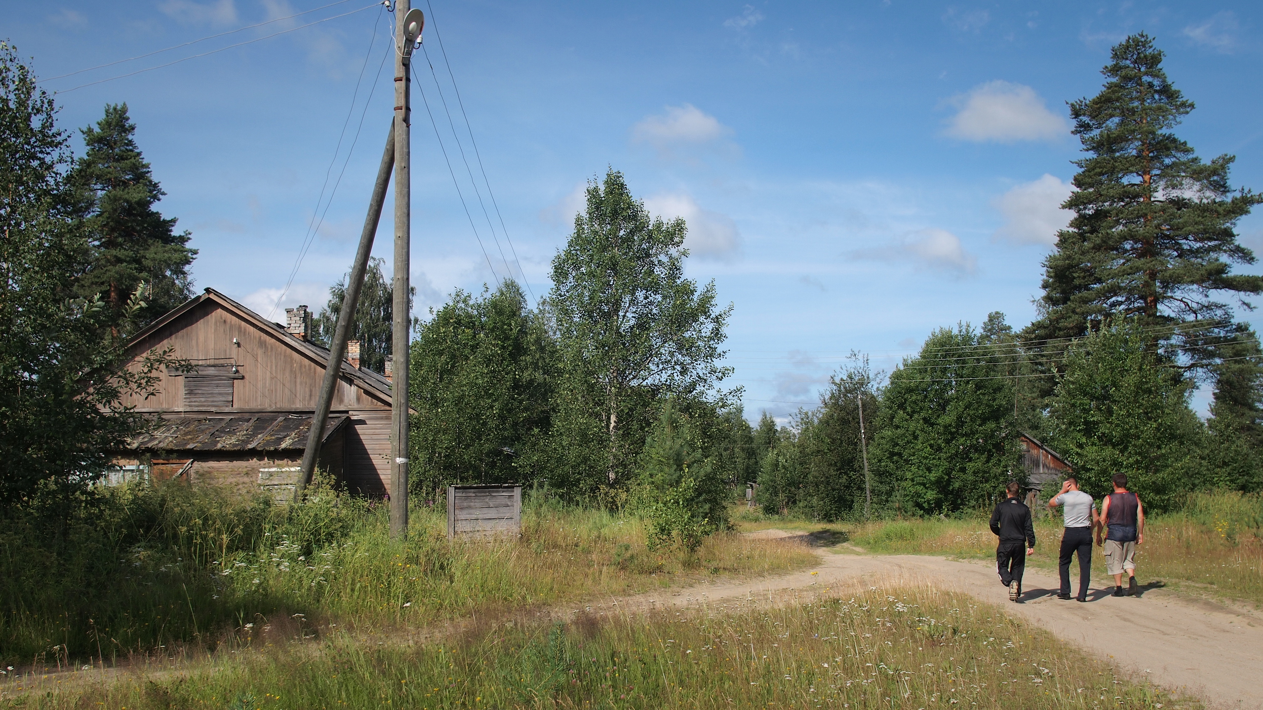 "Downtown" Kepa, district of Kalevala, Republic of Karelia, Russia.